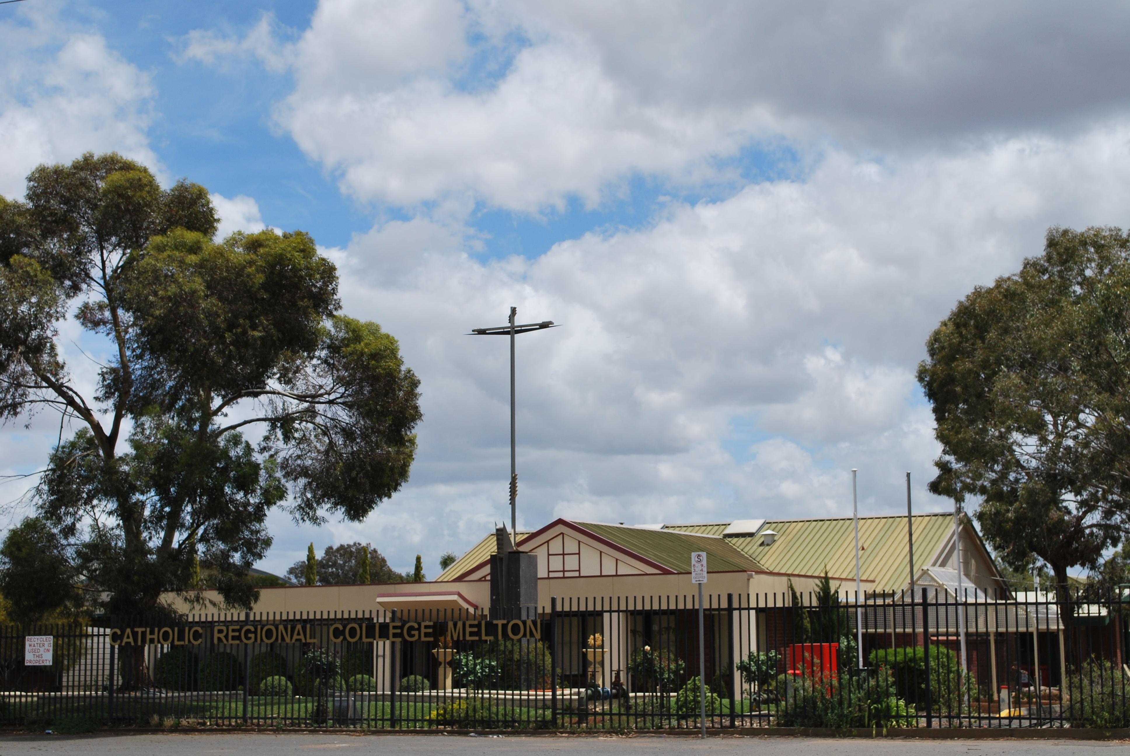 Catholic Regional College, Melton, Victoria